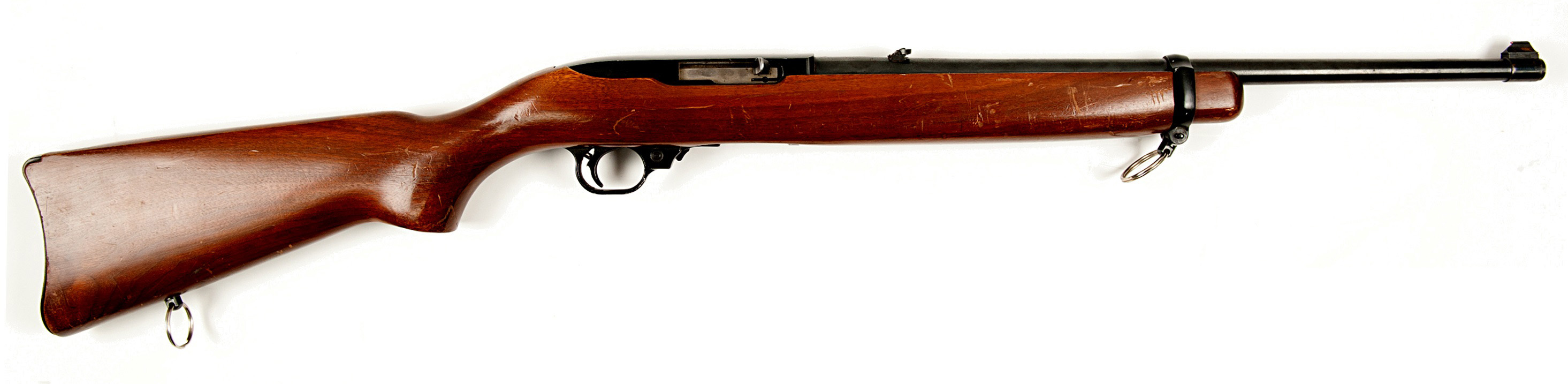 Picture of Ruger 10/22 Make: Ruger Model: 10/22 Caliber: .22 Long Rifle